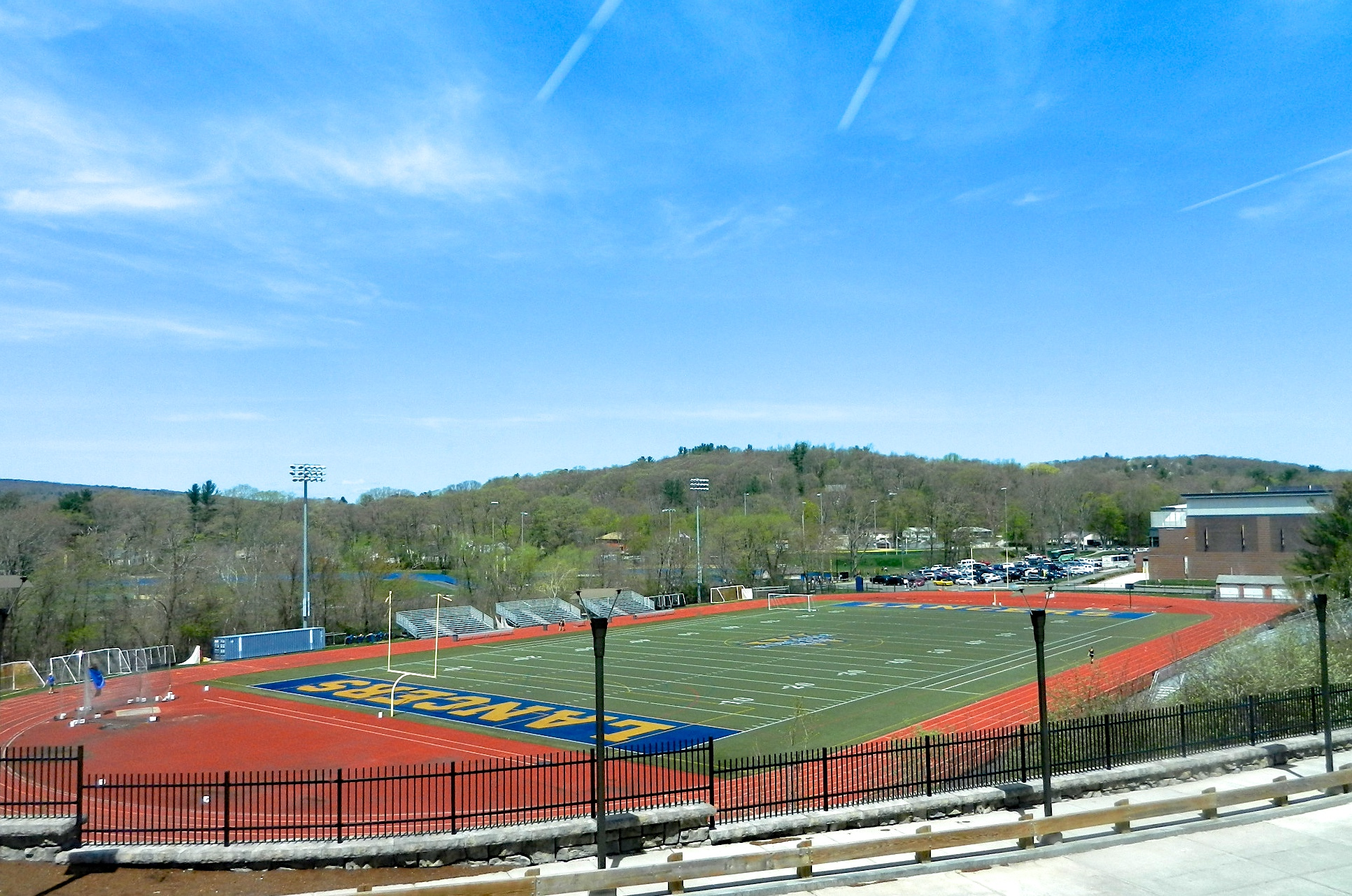 Playing field on the campus of Worcester State University, In Worcester, Massachusetts.